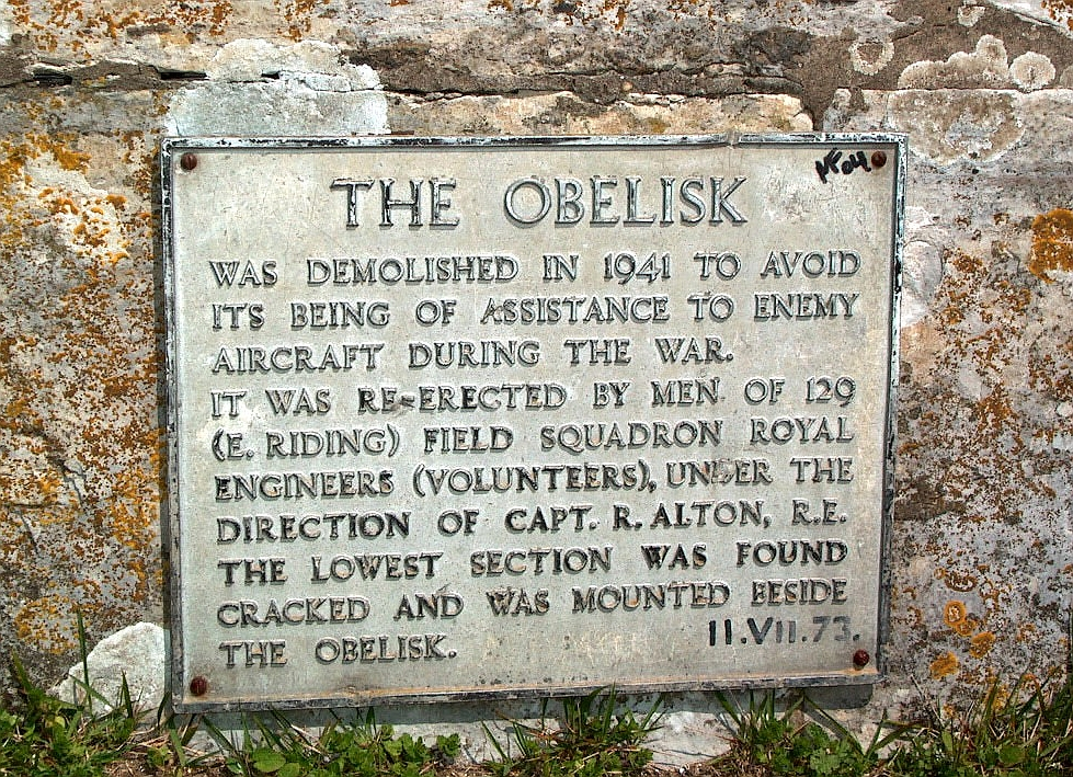 The Obelisk plaque, Dorset, England